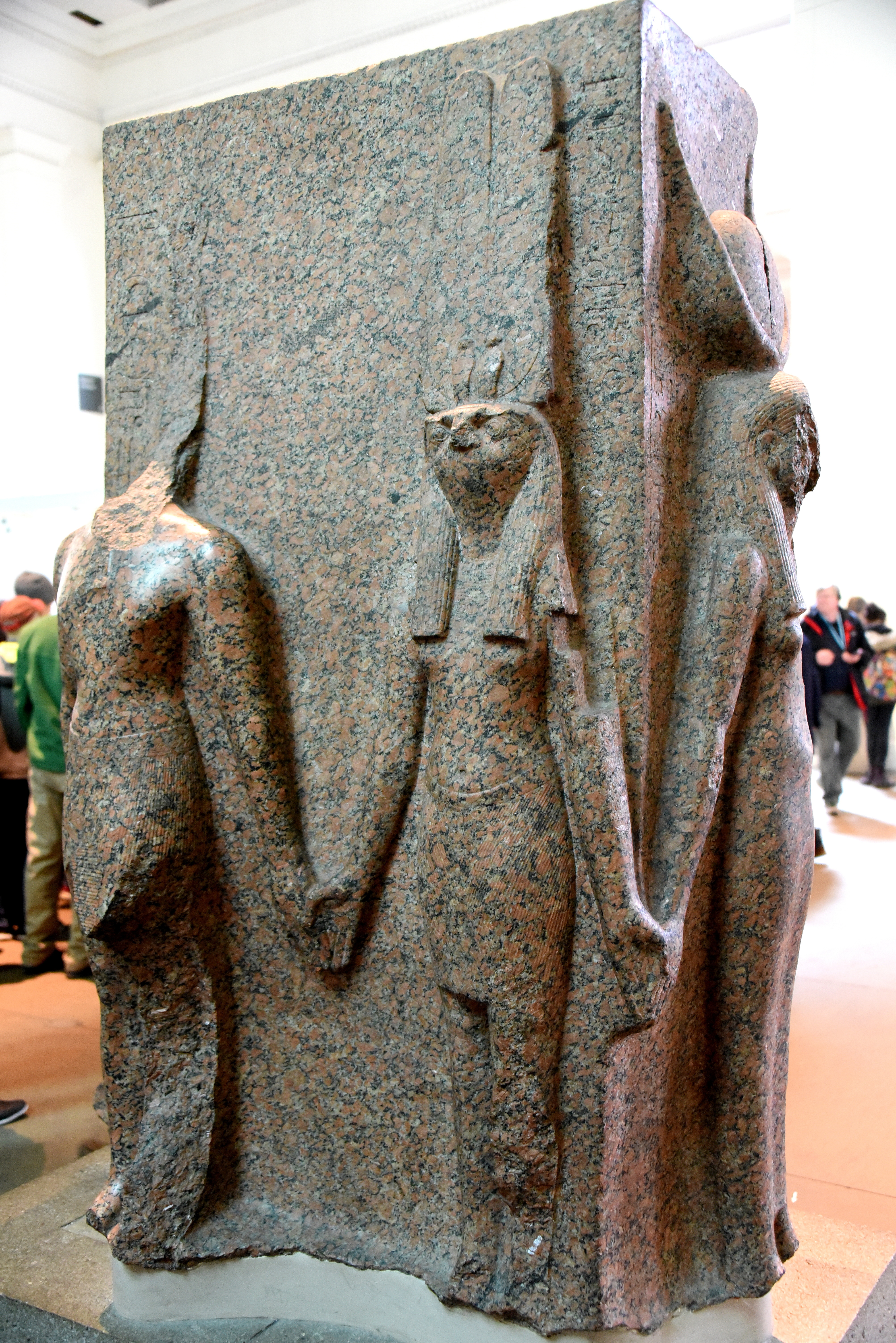 Sculptor of Thutmose III (now headless), who stands hand in hand with the god Montu-Ra (falcon-headed) and the goddess Hathor. This is a rare example of an Egyptian temple sculpture, in which the figures face in 4 directions. There are 3 persons, who were represented twice. The sculpture might have been placed within the middle of a room. Reign of Thutmose III, circa 1479-1425 BCE, from temple of Amun-Ra at Karnak, Thebes, Egypt. It is currently housed in the British Museum, London.